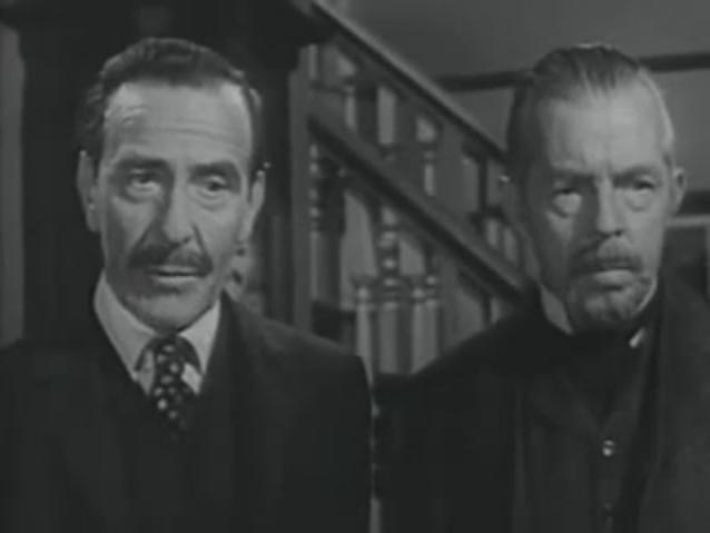 John Wengraf (left) & Rudolph Anders in the TV-series One Step Beyond, episode The Explorer - cropped screenshot